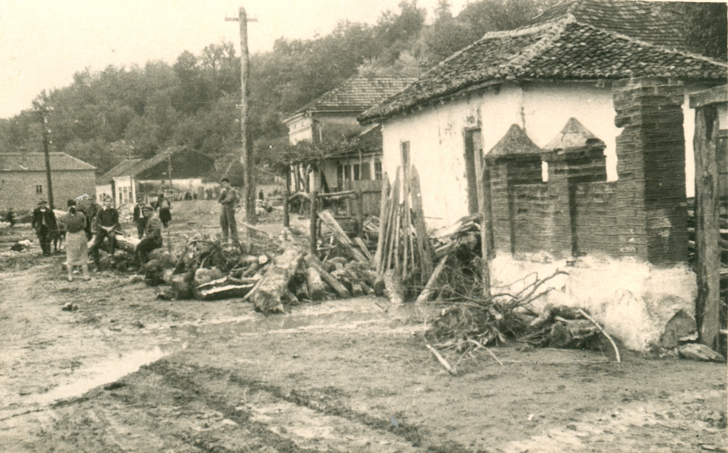 Natural disasters in Brza Palanka near Kladovo 1956. Srpski (latinica): Elementarne nepogode u Brzoj Palanci kod Kladova 1956.